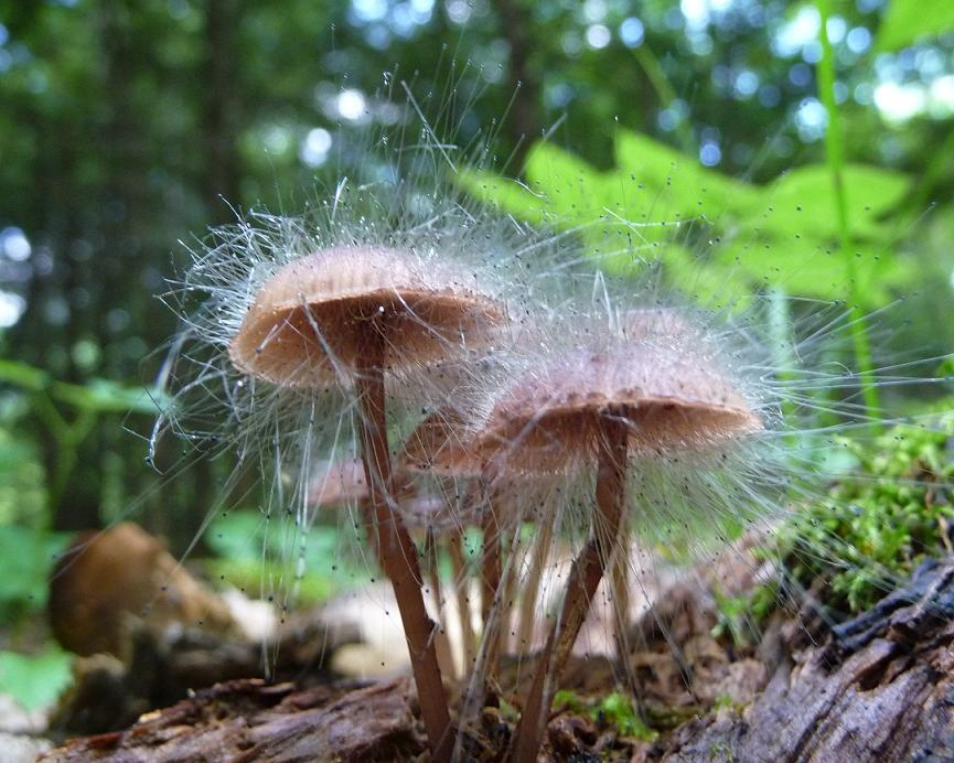 The zygomycete mold Spinellus fusiger, growing on Mycena haematopus. Specimen photographed in Ottawa, Ontario, Canada.